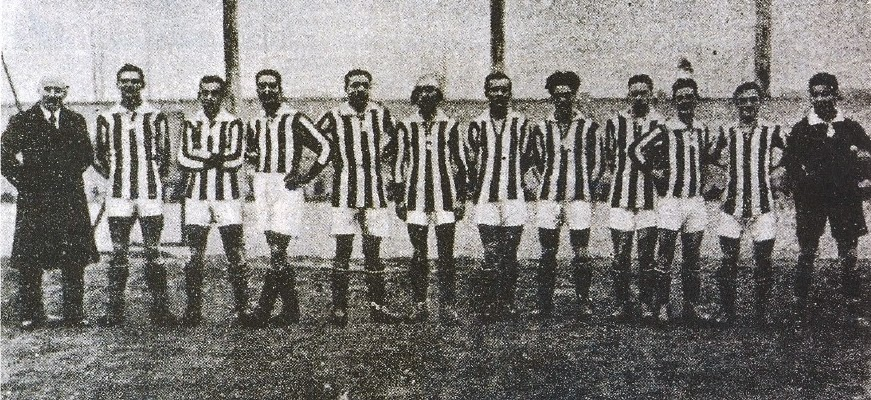 A line-up of F.B.C. Juventus in the 1923–24 season. From left to right: J. Károly (manager), G. Monticone, F. Audisio, G. Gianfardoni, P. Pastore, C. Bigatto (captain), A. Bruna, F. Munerati, V. Rosetta, G. Barale, G. Grabbi, G. Combi.